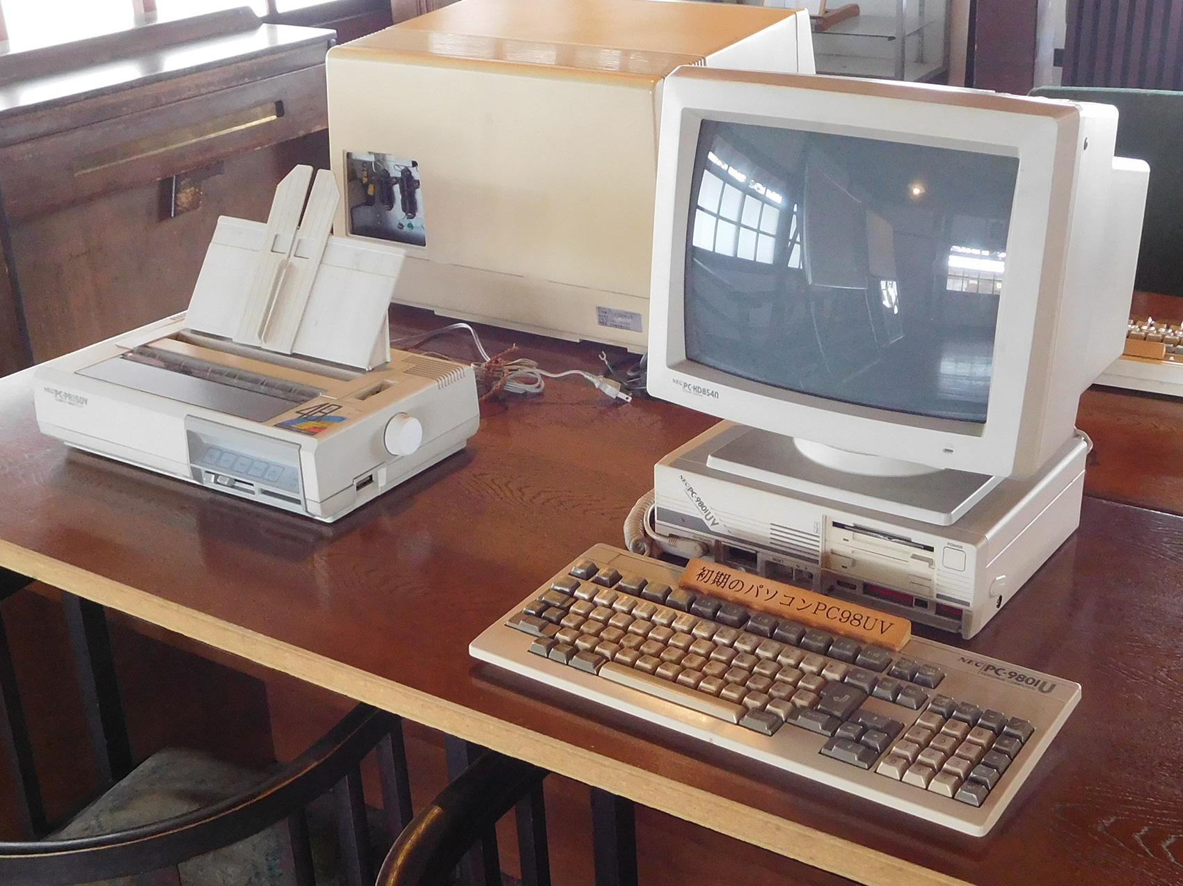 Cropped from File:NEC PC-9801UV owned by Takayama city.jpg uploaded by User:Miyuki Meinaka.